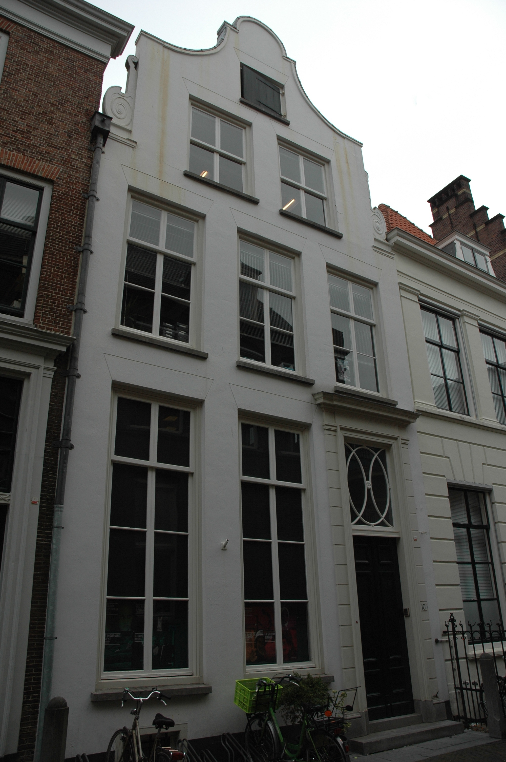 House Hoogt 10, Utrecht, The Netherlands